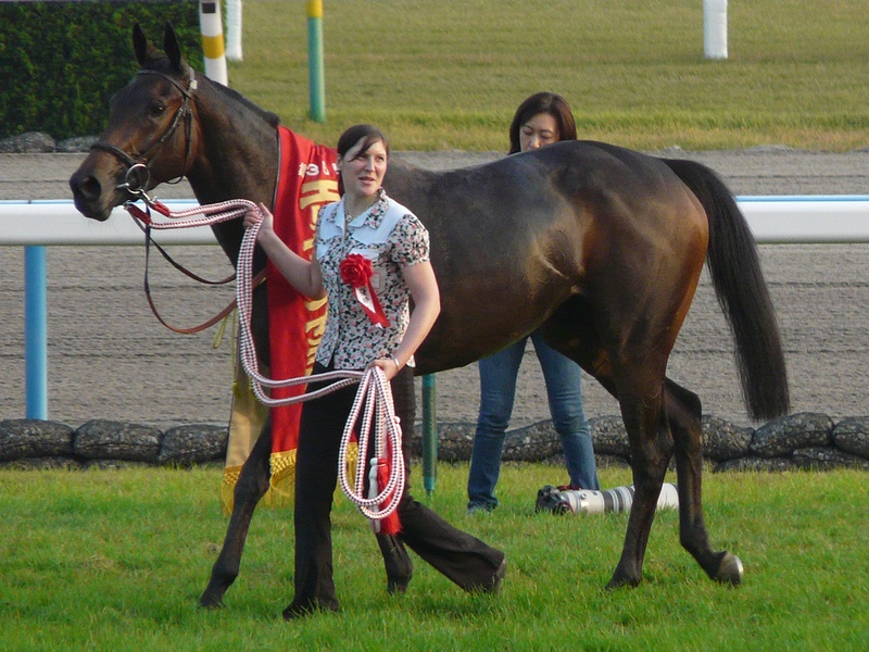 Snow-Fairy20101114(2)